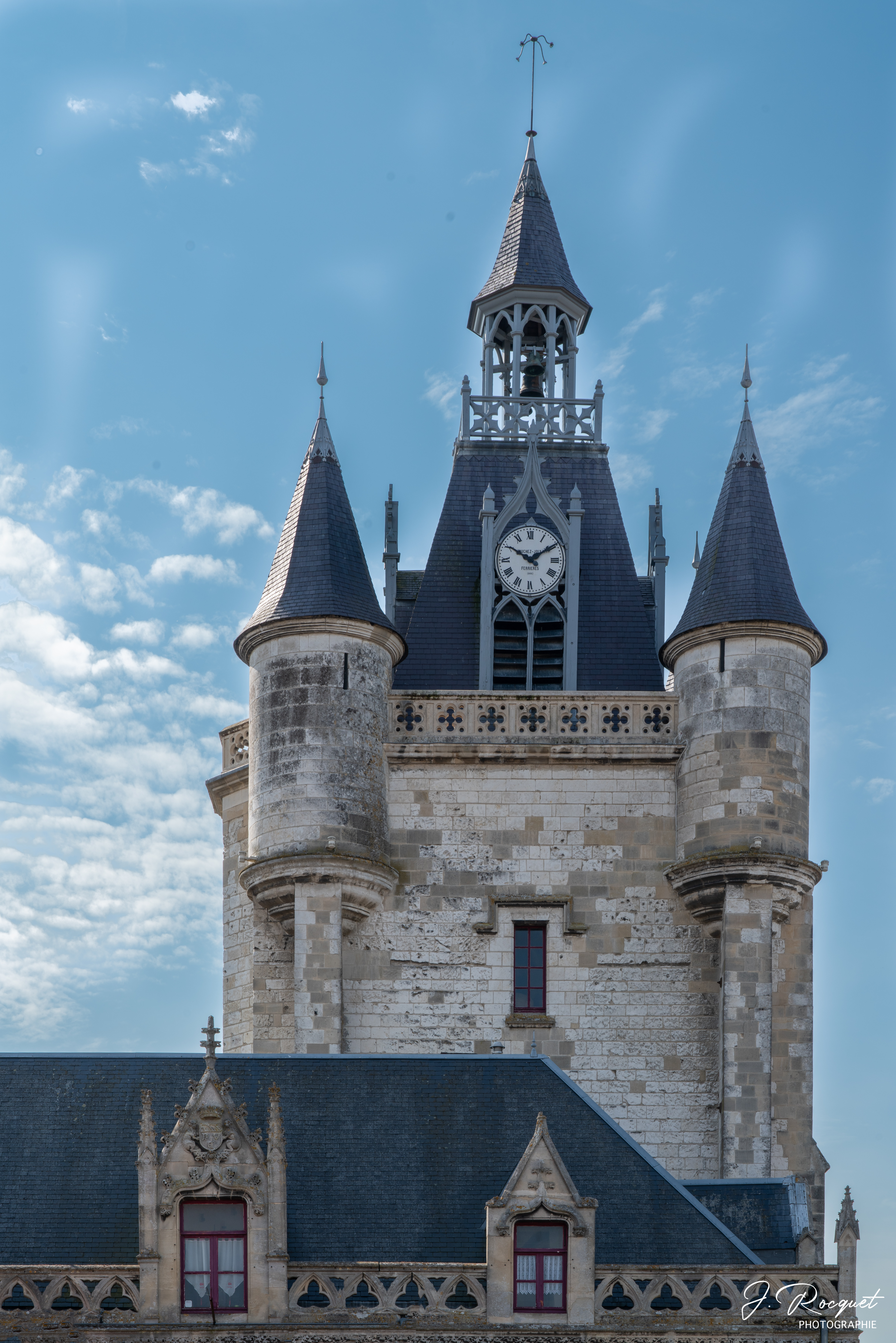 Tour du beffroi de Rue (Somme)